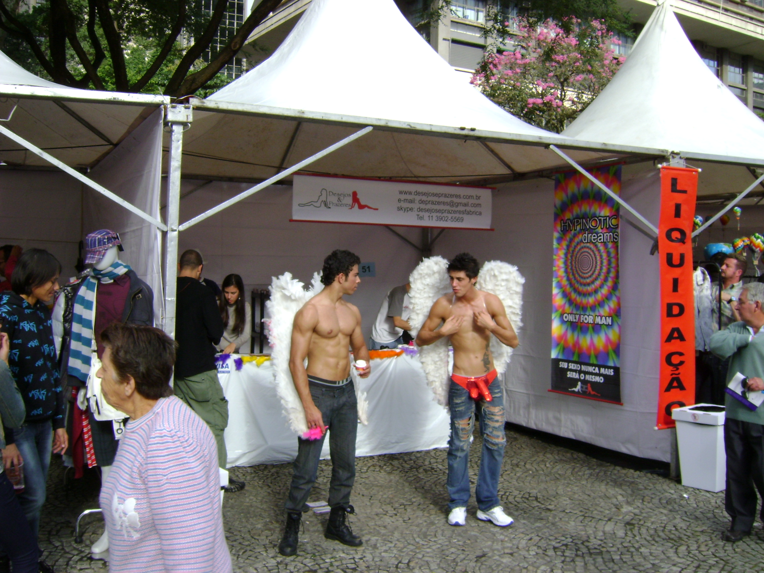 LGBT Cultural Fair in São Paulo, 2009